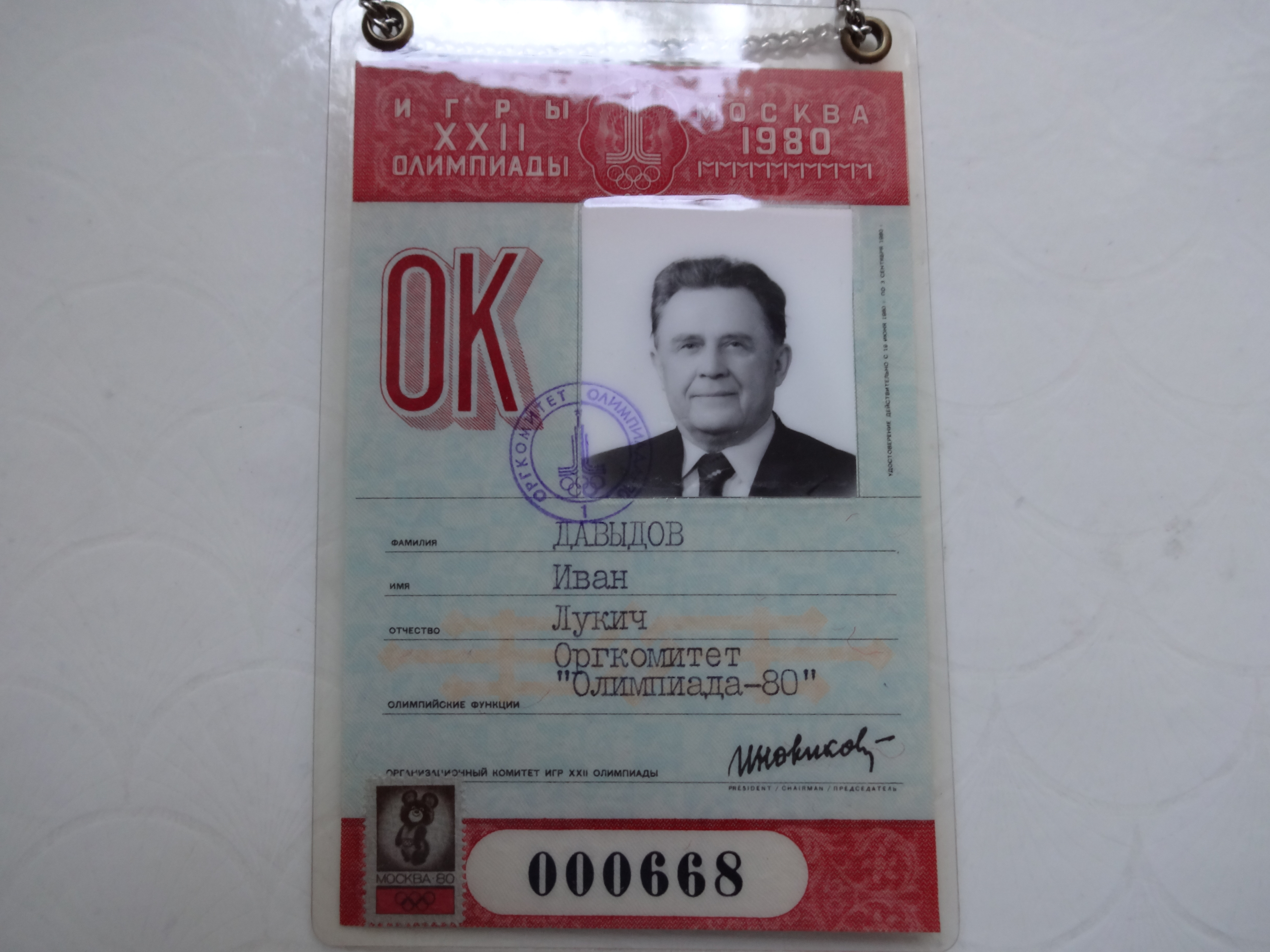 ОК-1980